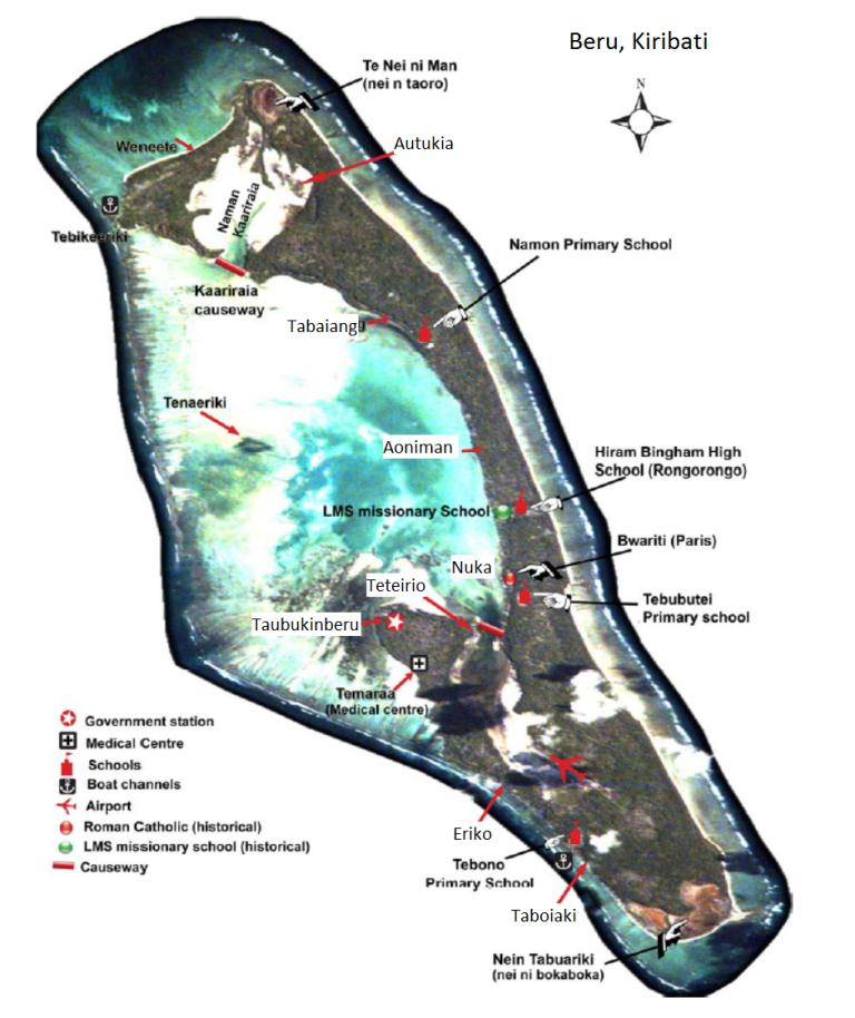 Astronaut photo of Beru, Kiribati with villages and main landmarks